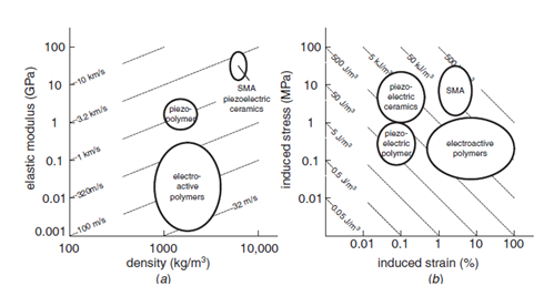 comparison of induced strees and induced strain for the actuator materials